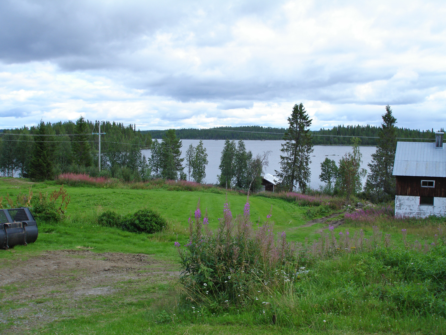 Lake Jiltjaur or Jilttjure in Sorsele Municipality, viewed with the village named after the lake.